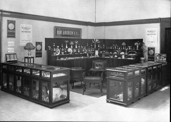 Stand with silver ware of jeweller's shop Van Arcken & Co. from Weltevreden at the Trade Fair in Bandung